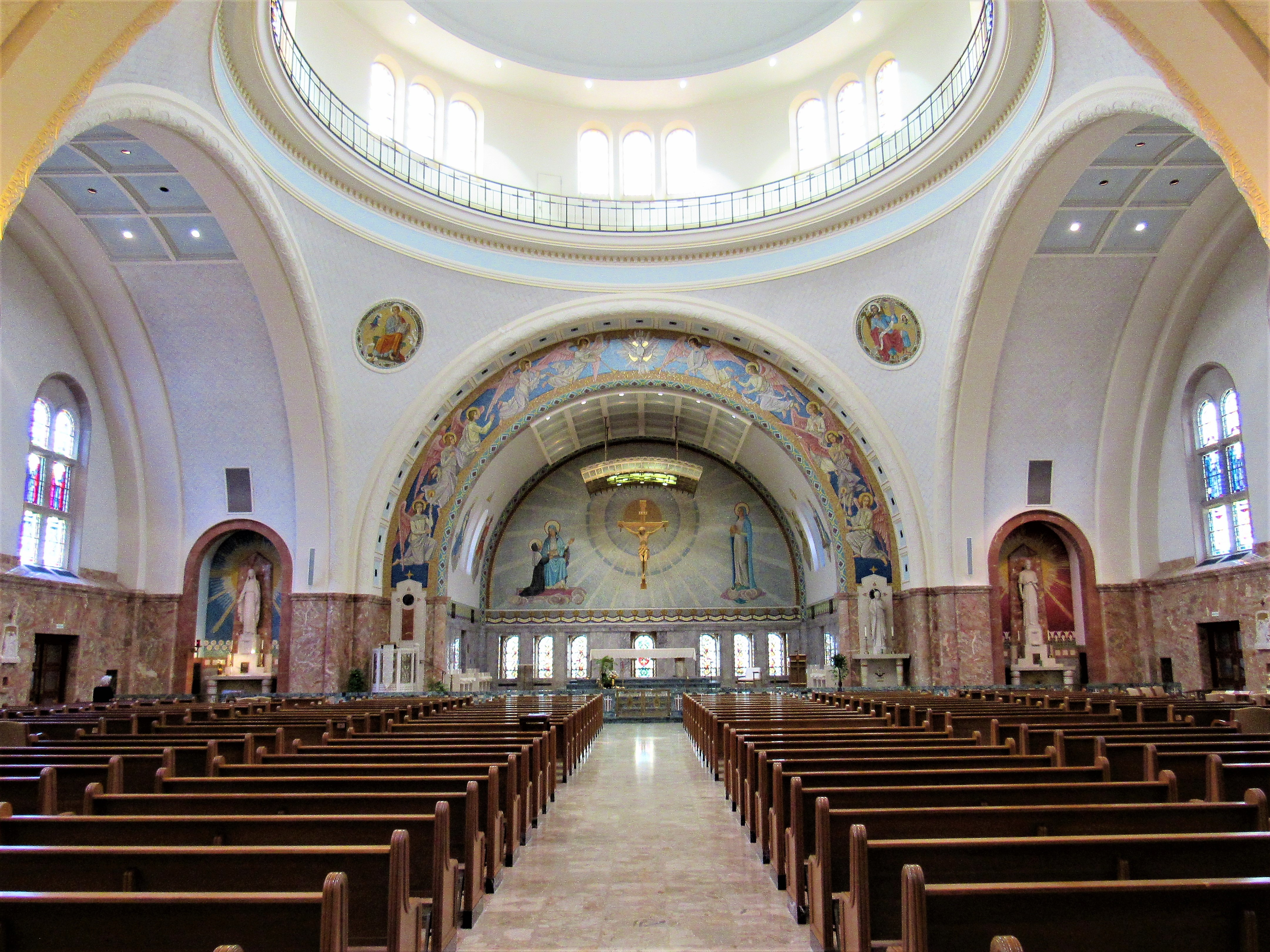 The interior of the Basilica of the National Shrine of St. Elizabeth Ann Seton in Emmitsburg, Maryland.